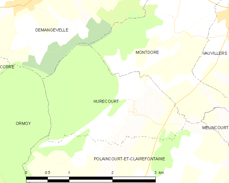 Map of French municipality